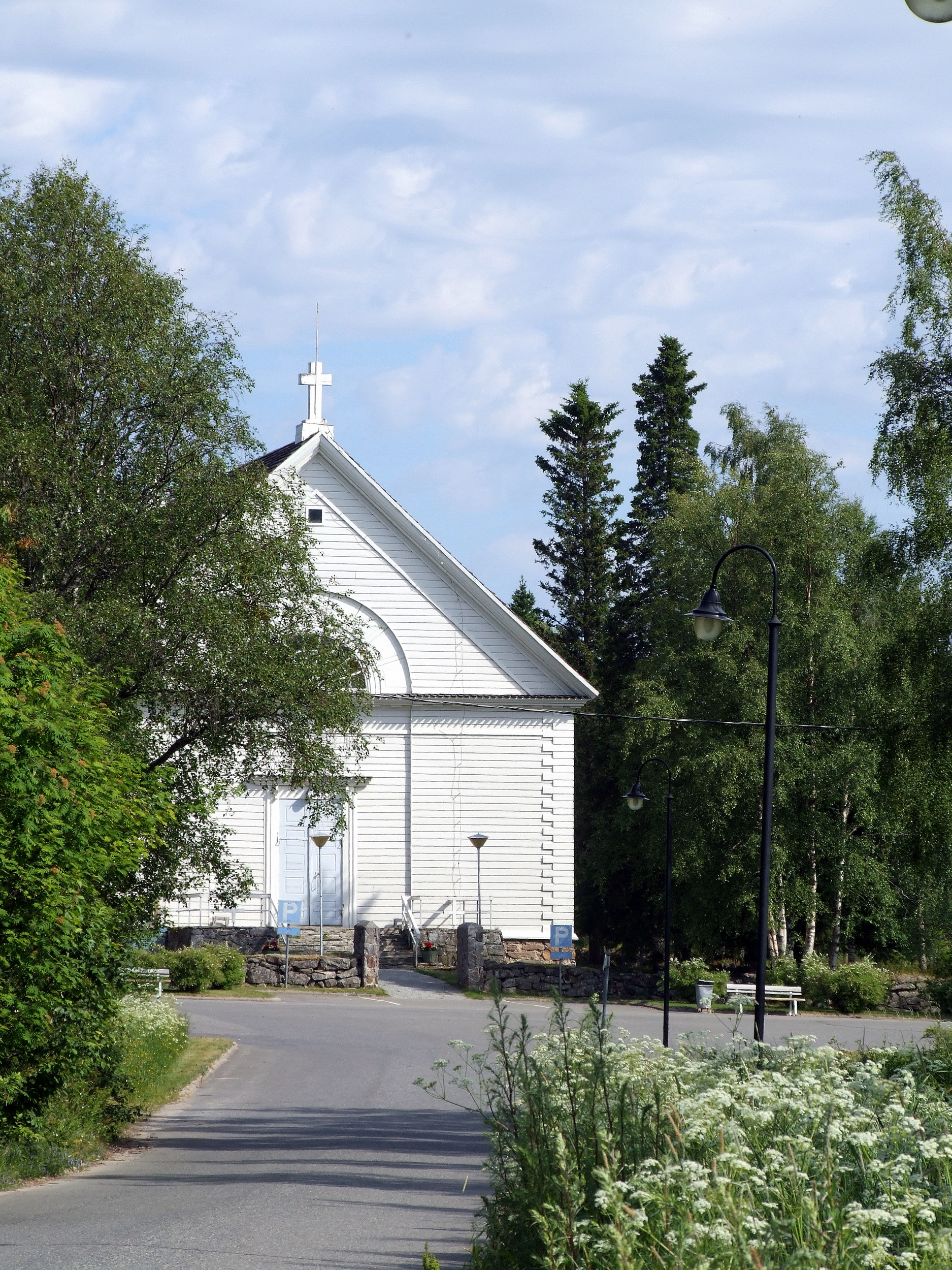 Simo church. Built in 1846. Designed by architect Ernst Bernhard Lohrmann